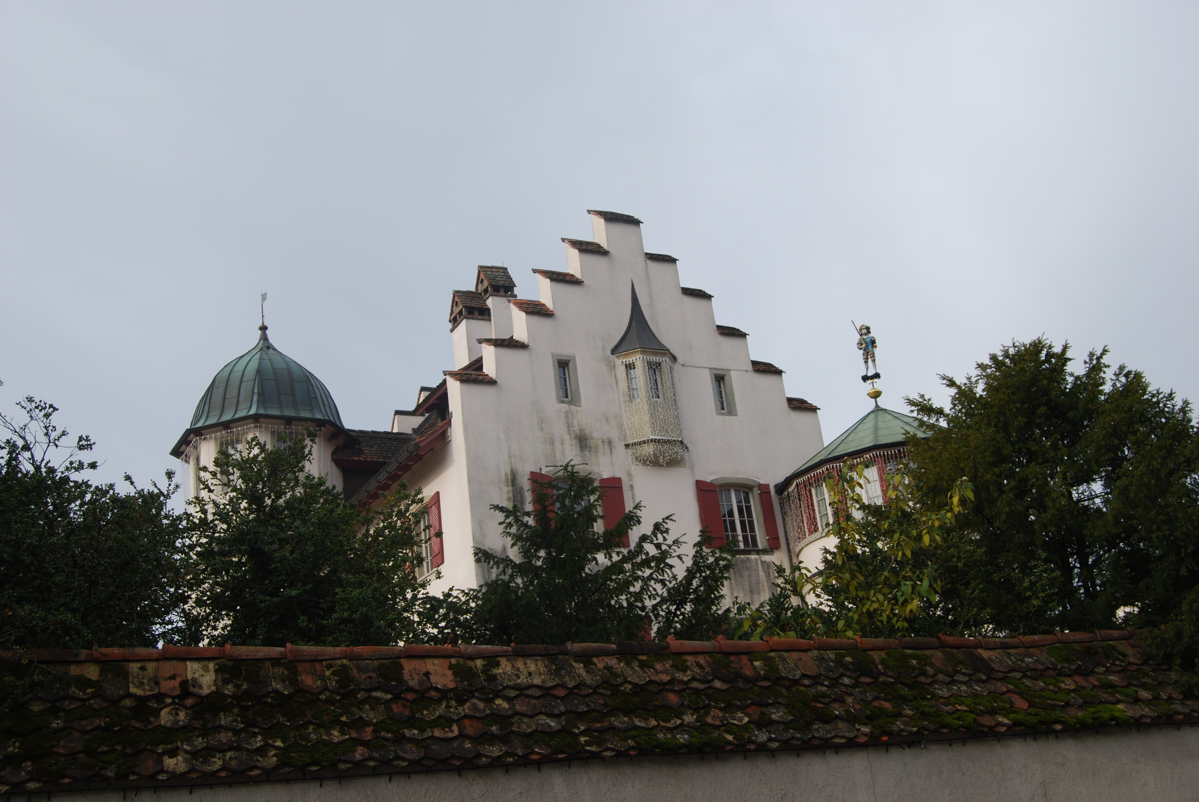 Castle Bellikon, canton of Aargau, SwitzerlandEsperanto: Kastelo Bellikon, Kantono Argovio, Svislando